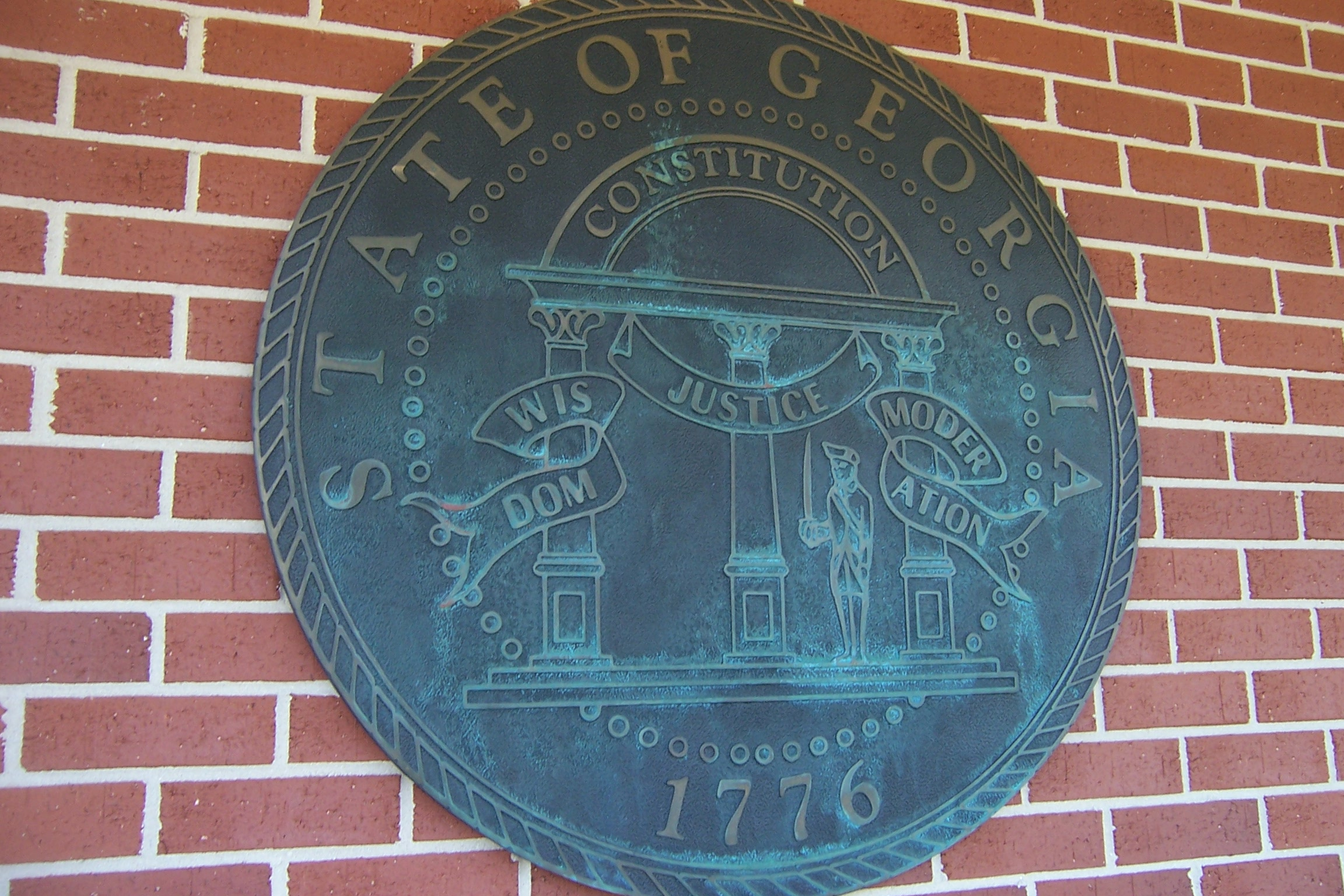 Large metallic Seal of Georgia, located at eastbound rest area of Interstate 20 getting near to Augusta, Georgia.